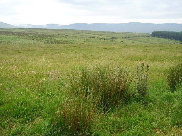 Rough grazing in the Comeraghs. At over 300m on acid sandstone soils, fertility is not great. The land is mostly open sheep walk. Comeragh Mountains in the background.